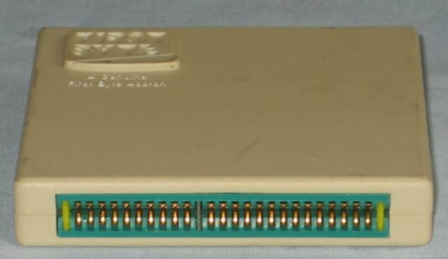 First Byte Switched Joystick Interface (Electron end).The First Byte switched Joystick interface connected to the expansion bus on an Electorn and a switched-type joystick was plugged into it. A cassette was supplied with a Game Conversion program which allowed about 50% of games to be played using it. The game Conversion program was loaded before the game.